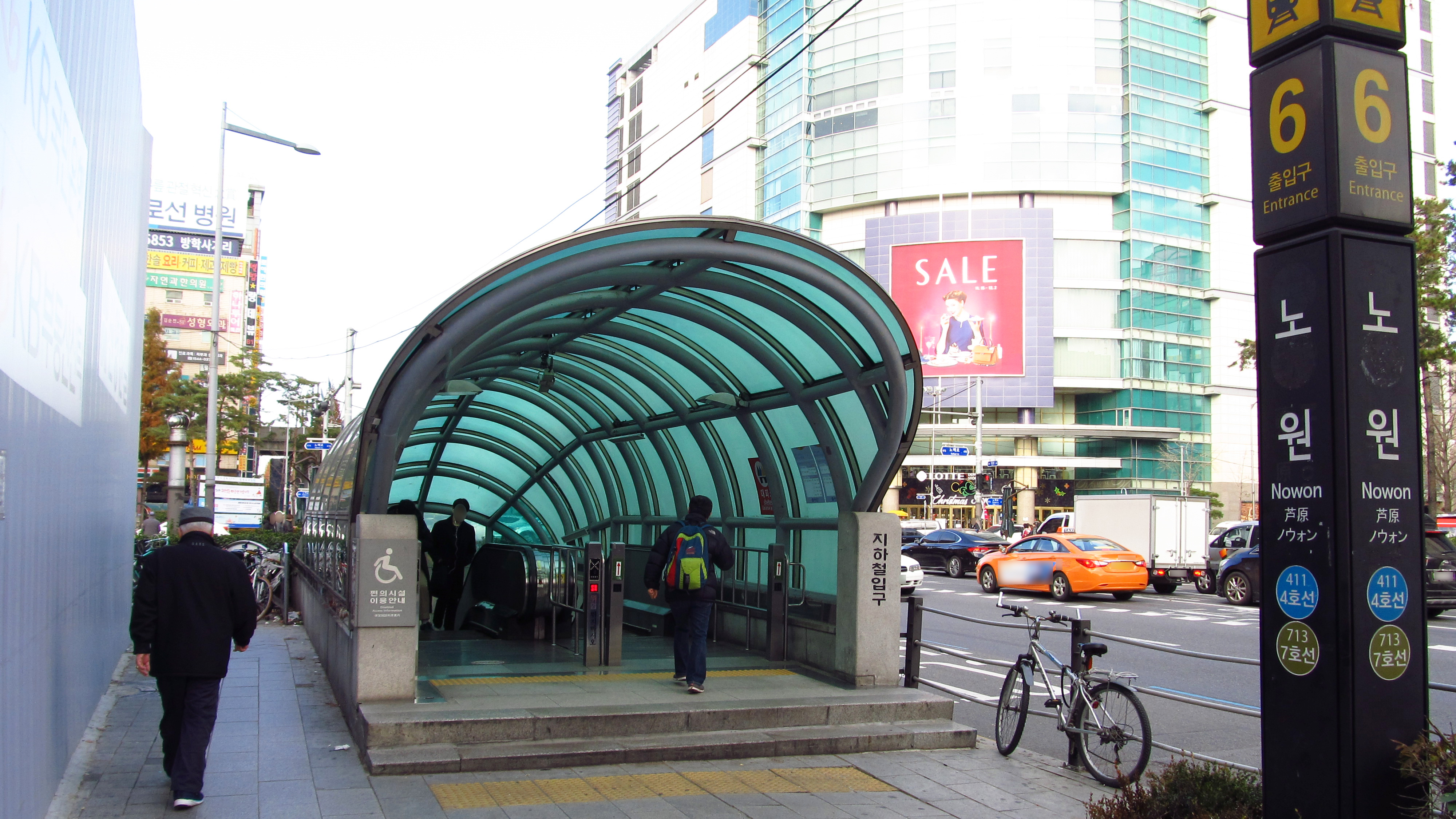 The no.6 entrance to Nowon Station on Seoul Subway Line 4 and Line 7 in Nowon-gu, Seoul, Republic of Korea(South Korea)